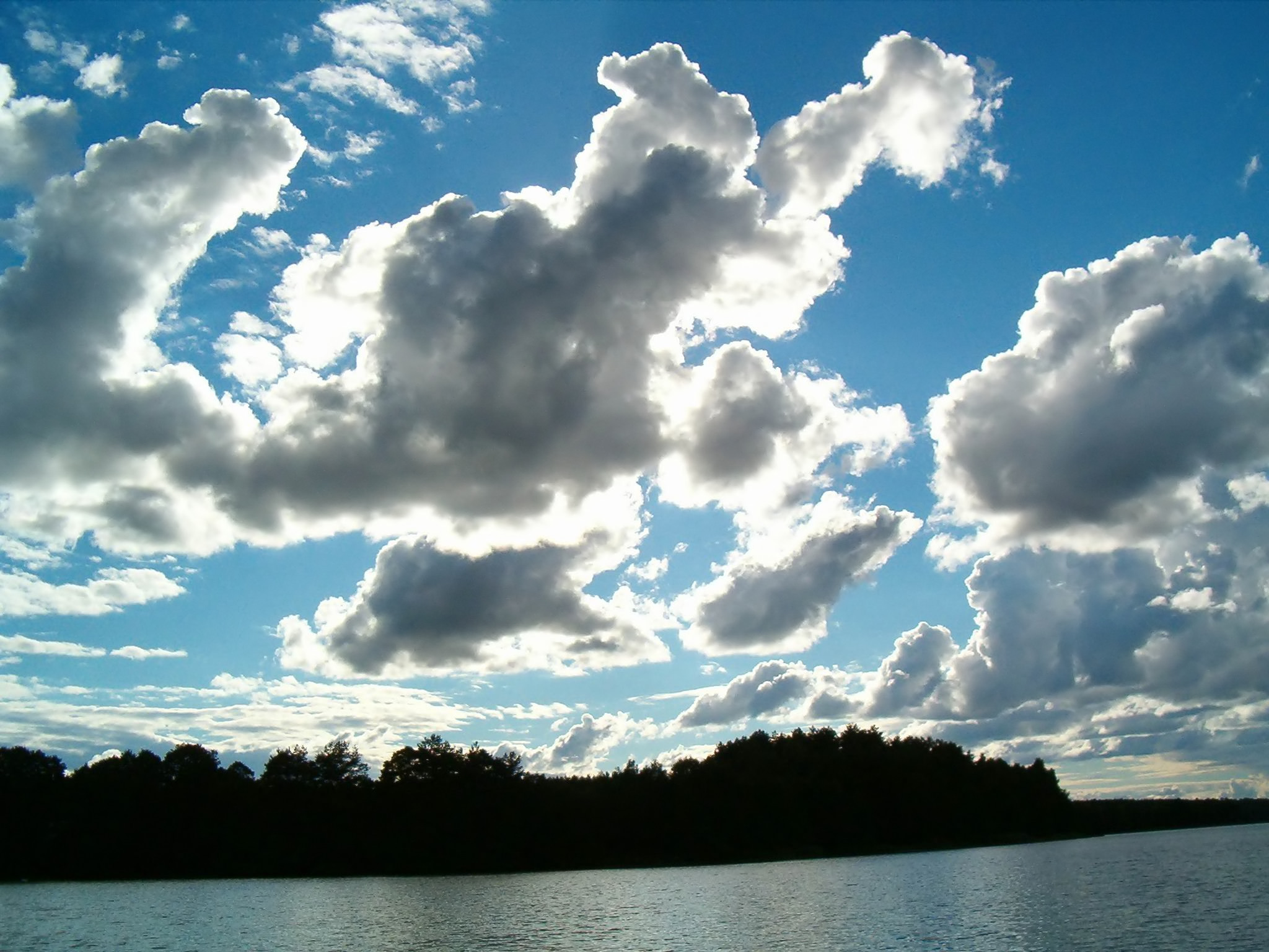 Clouds over Radolne Lake in Kashubia (Poland)